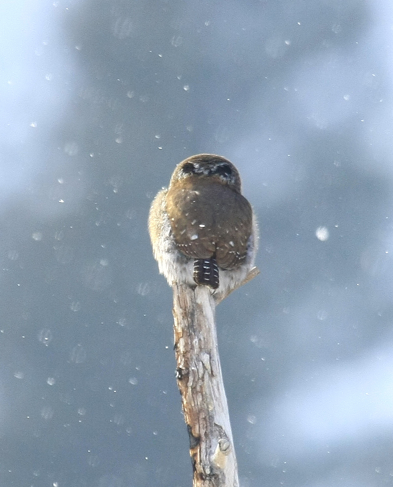 Northern Pygmy Owl Glaucidium californicum, showing fake eyes on the back of the head. Verdi Sierra Pines, California, USA.